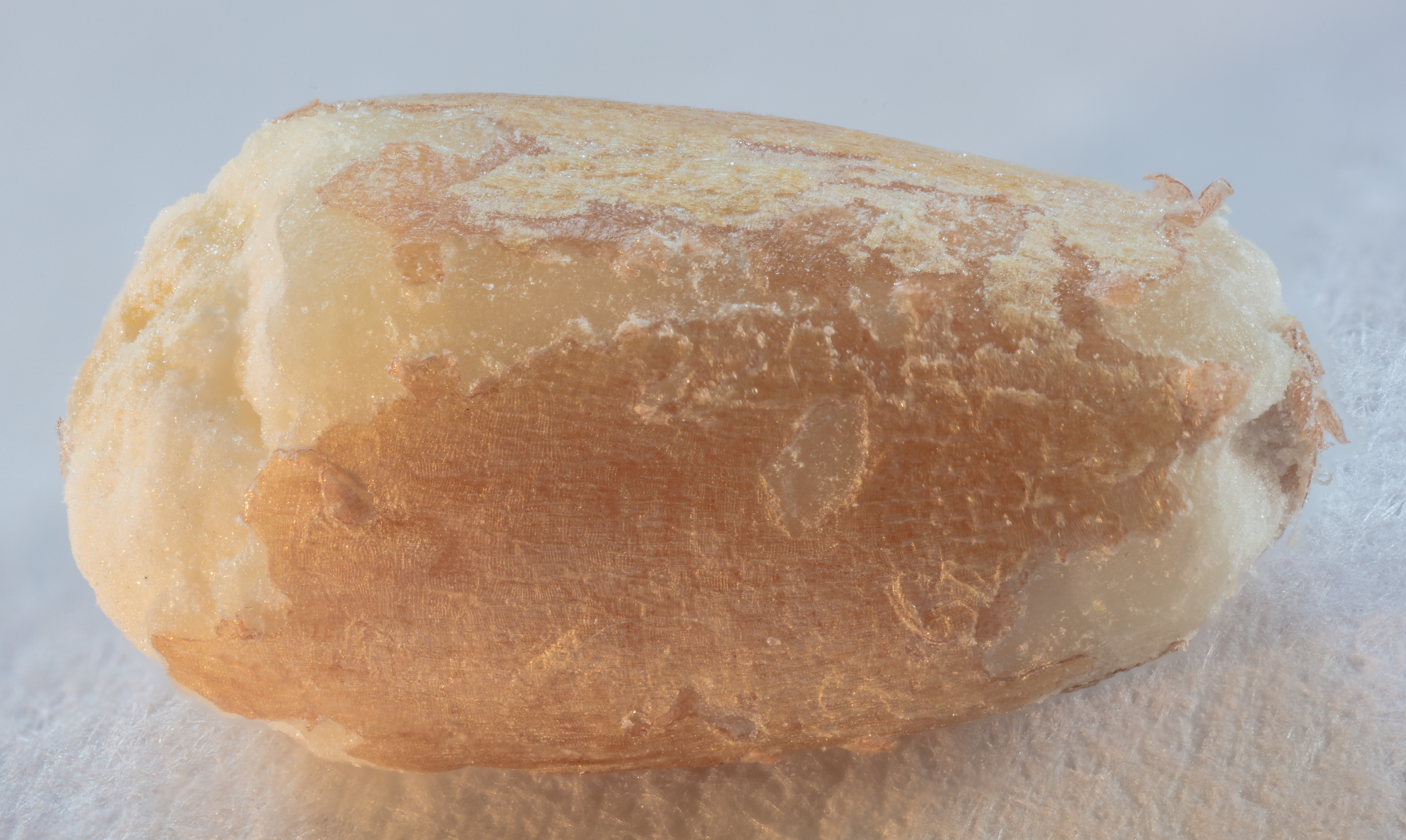 Grain of dinkel wheat